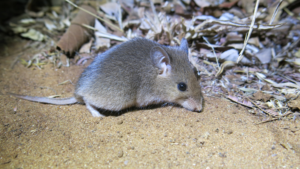 Pouched Mouse (Saccostomus campestris), photographed in the Sand River Gorge, Medike Mountain Sanctuary, Soutpansberg, South Africa.